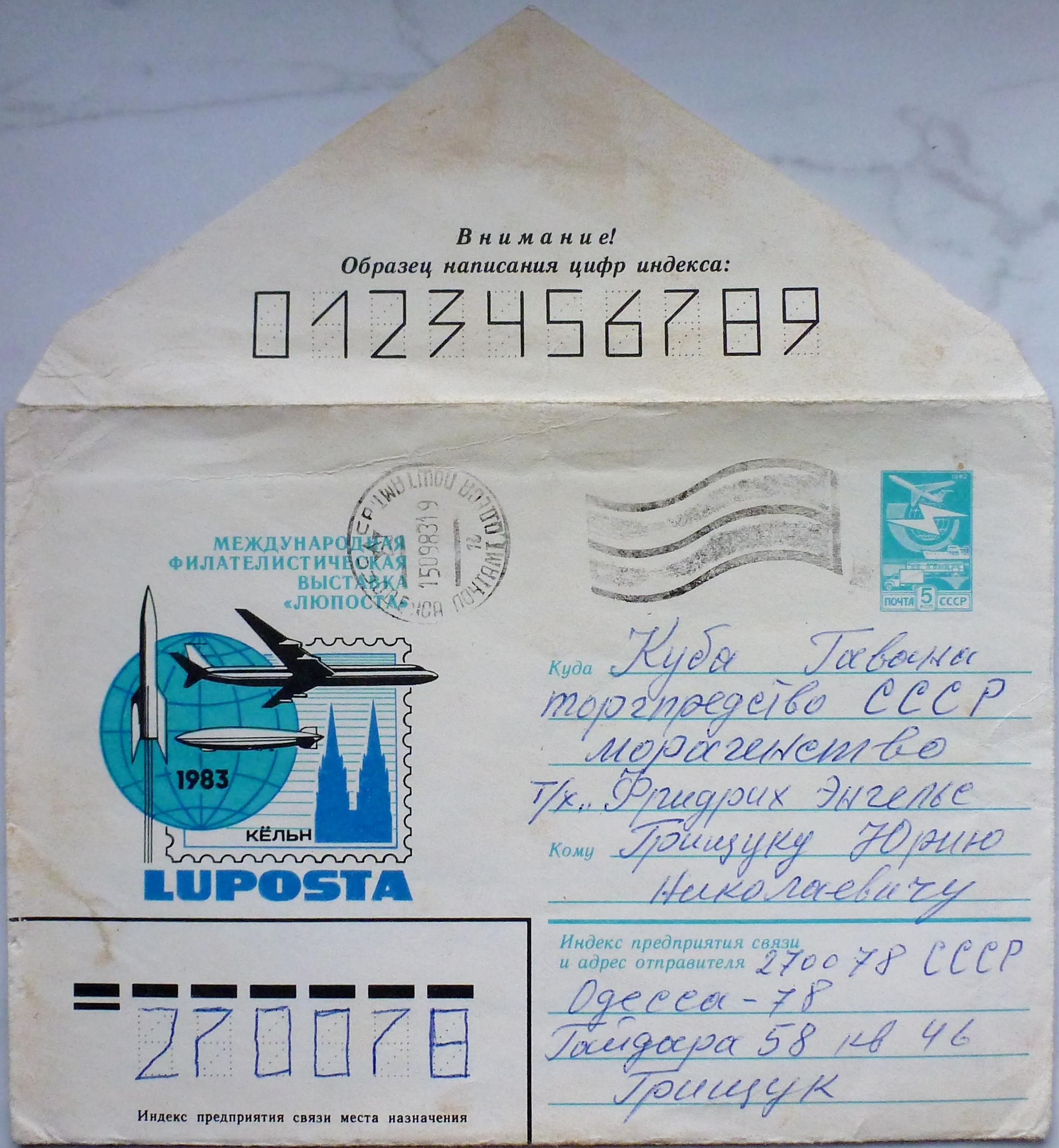 Envelope of the Letter, which was sent on the 15 of September from Odessa to Cuba and received on the Soviet ship Fridrikh Engels on the 23 of September, 1983. The Soviet post transferred the letter in this envelove from Odessa to the Soviet ship in Cuba in 8 days.